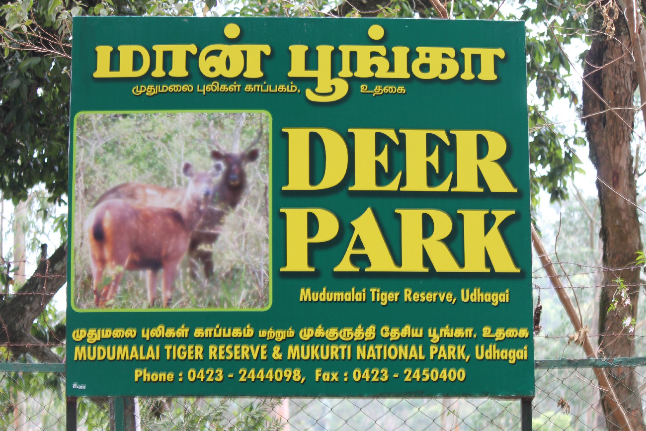 A Collection of Photos of Tourist Palces from Ooty This media file is uploaded with Malayalam loves Wikimedia event - 2.